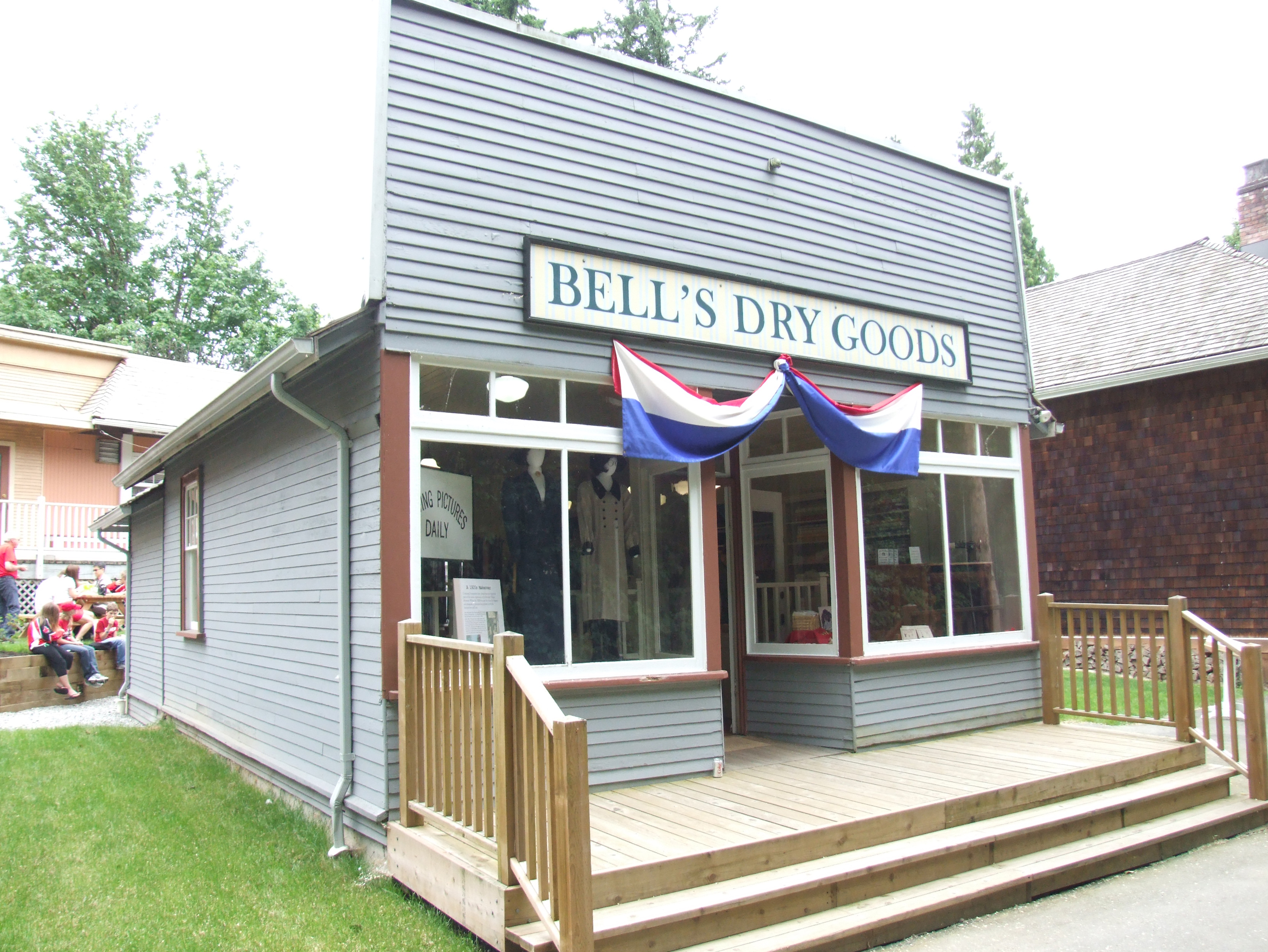 Bells Dry Goods Store. Bells Dry Goods is now located in the Burnaby Village Museum. Built c 1918 - A good example of a “false- front” commercial building in Vernacular style.